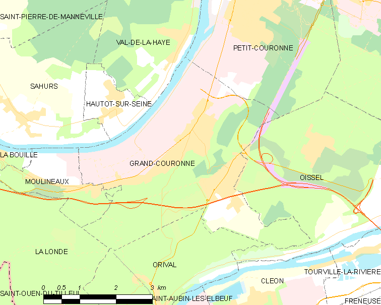 Map of French municipality Grand-Couronne